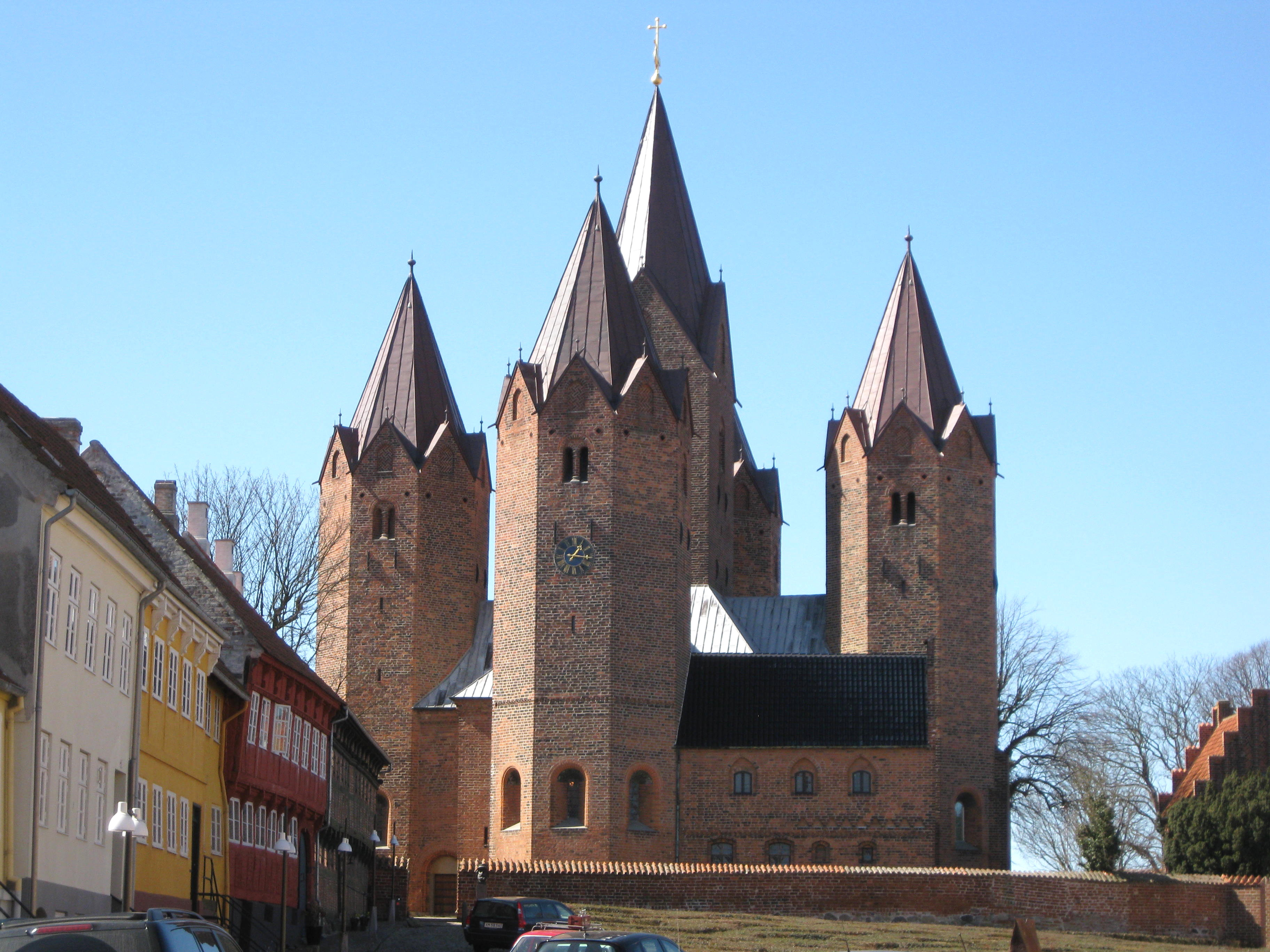 The church "Vor Frue Kirke" in the town Kalundborg. The town is located in West Zealand, Denmark.